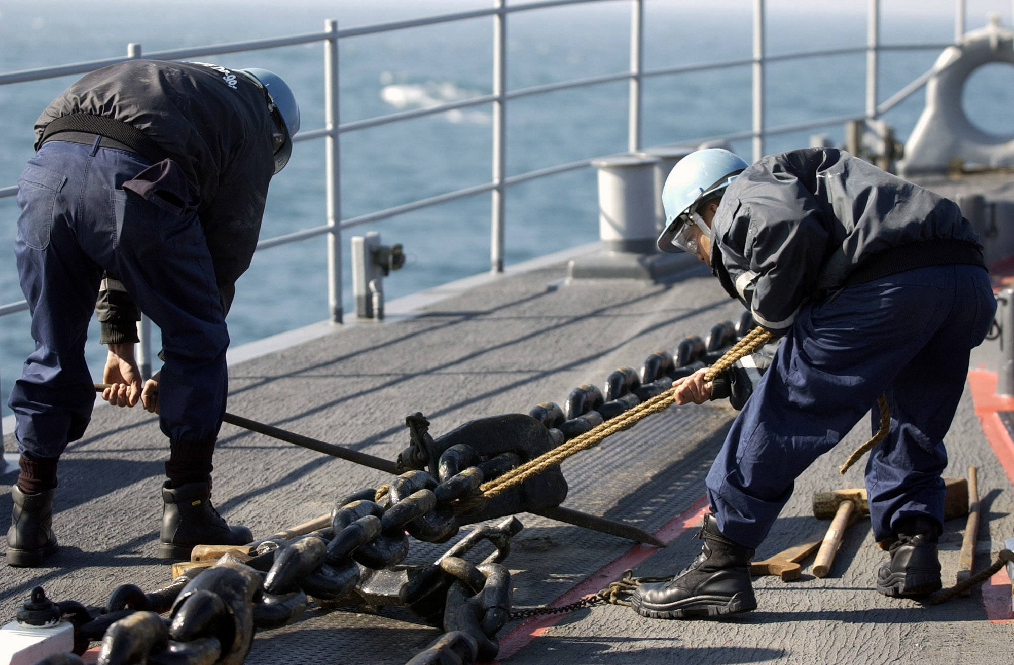 Aboard the guided missile destroyer USS Fife (DDG 991) 020707-N-6967M-006 Southern Pacific Ocean (Jul. 7, 2002) -- Seaman Matthew Johnston (left) and Boatswain's Mate Petty Officer 3rd Class Lody Quinola (right) free the “pelican hook” anchor chain locking mechanism aboard the guided-missile destroyer USS Fife (DDG 991) during exercise UNITAS 2002. UNITAS (Latin for “unity”) is an exercise which involves warships from six countries participating in ten days of intense wargames designed to build multinational coalitions while promoting hemispheric defense and mutual cooperation. U.S. Navy photo by Photographer’s Mate 1st Class Shane T. McCoy. (RELEASED)